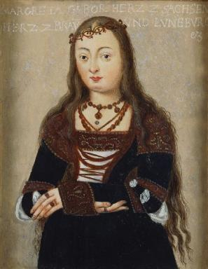 Margareta, Duchess of Brunswick-Lüneburg (1469-1528)